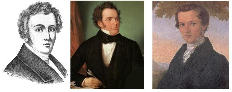 Photo of Schubert, Silcher, etc